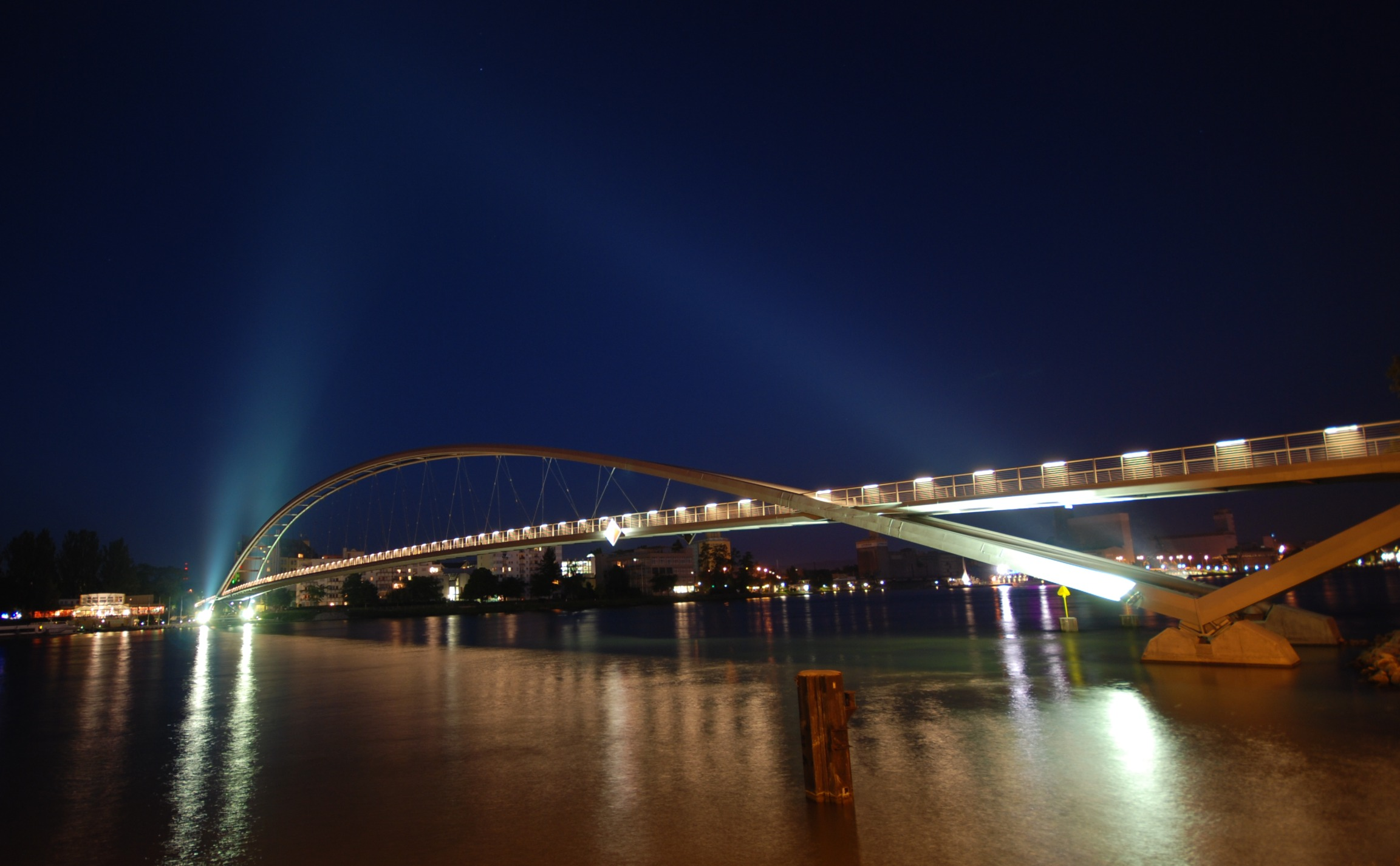 The Three Country Bridge at night in Huningue (France) and Weil am Rhein (Germany) next to the Three Country Country of Basel (Switzerland).